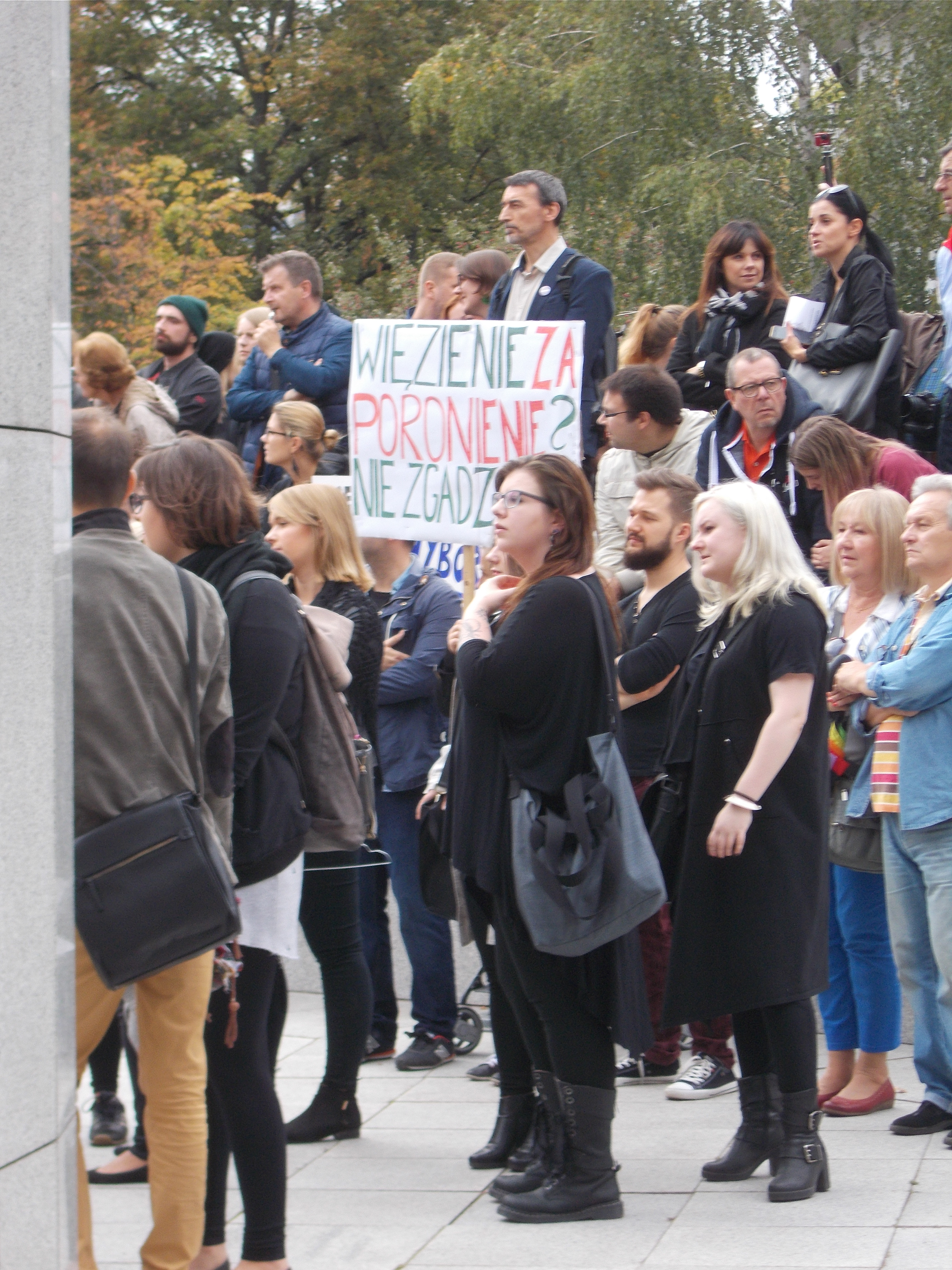 Black protest of initiative Save the Women 2016 10 01 in Warsaw